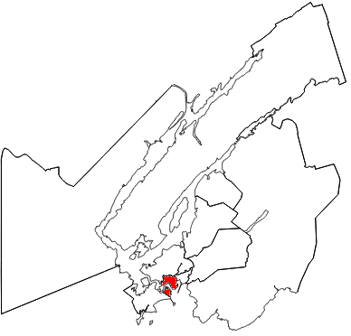 The riding of Saint John Harbour in relation to other electoral districts in Greater Saint John.